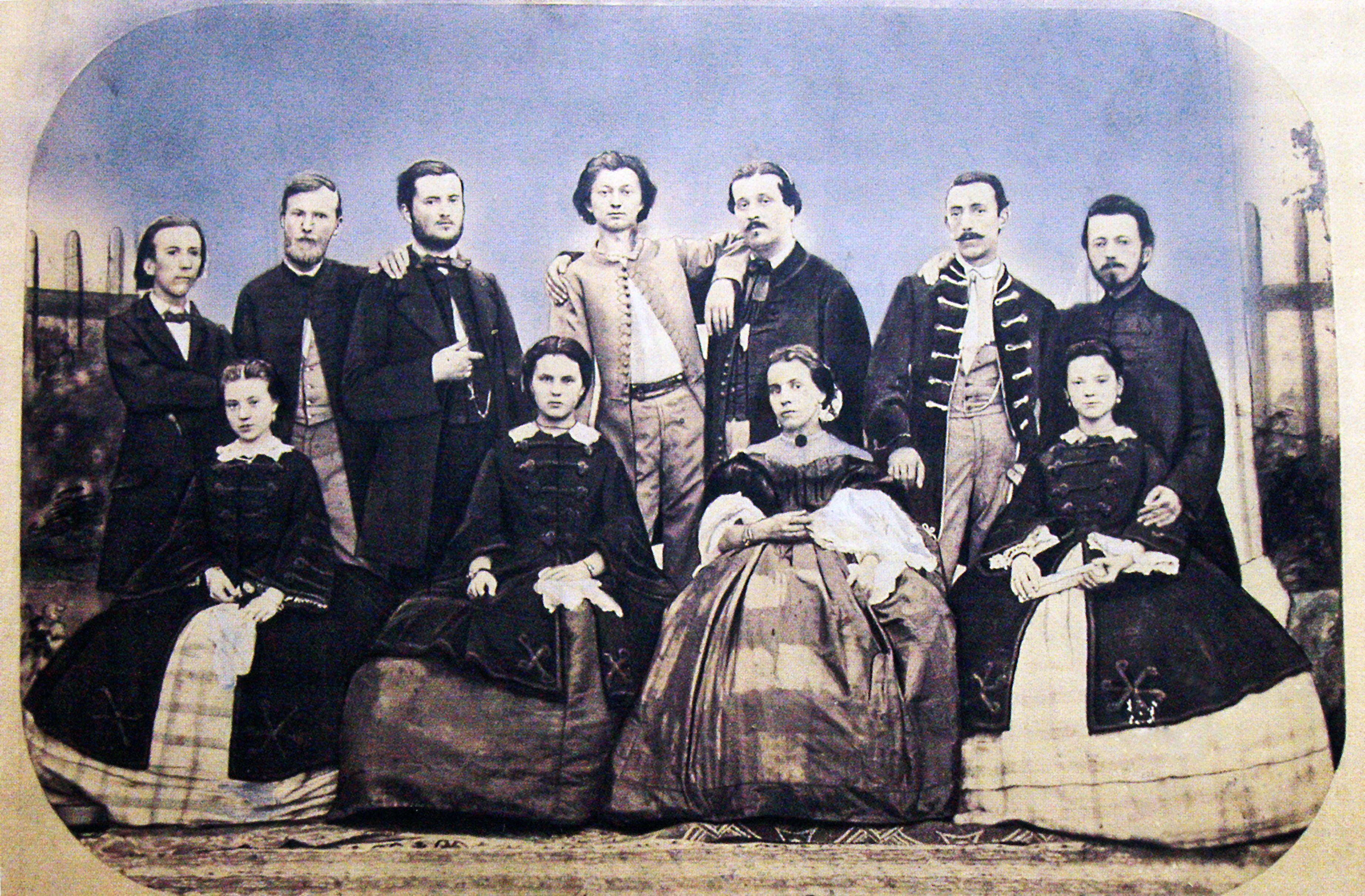 Members of The Volunteer Theatre Actors in Budim, in the hause of merchant Josif Stanković, from the left standing: Stevan Pantelić, Đorđe Maksimović, Miša Sabovljević, Laza Kostić, Mita Krestić, Đura Vuković and Antonije Hadžić; from left sitting: Marija Dukina, Pava Stankovićeva, Marija Rozmirovićeva i Pava Dukina, 1861. Photographer: Georgije Knežević Srpski (latinica): Članovi Dobrovoljčkog pozorišnog društva u Budimu, u kući trgovca Josifa Stankovića; s leva stoje: Stevan Pantelić, Đorđe Maksimović, Miša Sabovljević, Laza Kostić, Mita Krestić, Đura Vuković and Antonije Hadžić; s leva sede: Marija Dukina, Pava Stankovićeva, Marija Rozmirovićeva i Pava Dukina, 1861. Fotograf: Georgije Knežević Српски (ћирилица): Чланови Драговољачког позоришног друштва у Будиму, у кући трговца Јосифа Станковића. Стоје слева: Стеван Пантелић, Ђорђе Максимовић, Миша Сабовљевић, Лаза Костић, Мита Крестић, Ђура Вуковић и Антоније Хаџић. Седе слева: МаријаДукина, Пава Станковићева, Марија Розмировићева и Пава Дукина. Снимак је начинио Георгије Кнежевић, 1861. Фотографија је накнадно ручно бојена Ова датотека је донација Позоришног музеја Војводине, у оквиру програма стажирања реализованог од стране Викимедије Србије. This file is donated by the Theatre Museum of Vojvodina, as part of the Wikipedian in Residence program implemented by Wikimedia Serbia.